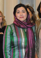 2008 International Women of Courage Awards